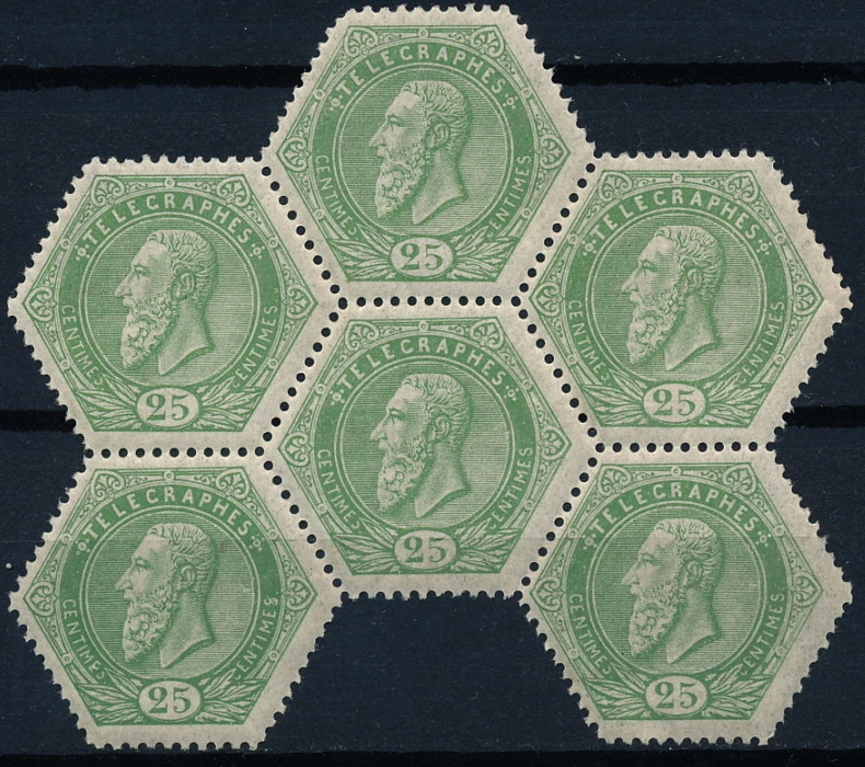 Belgium 1888 25c telegraph stamps.jpg